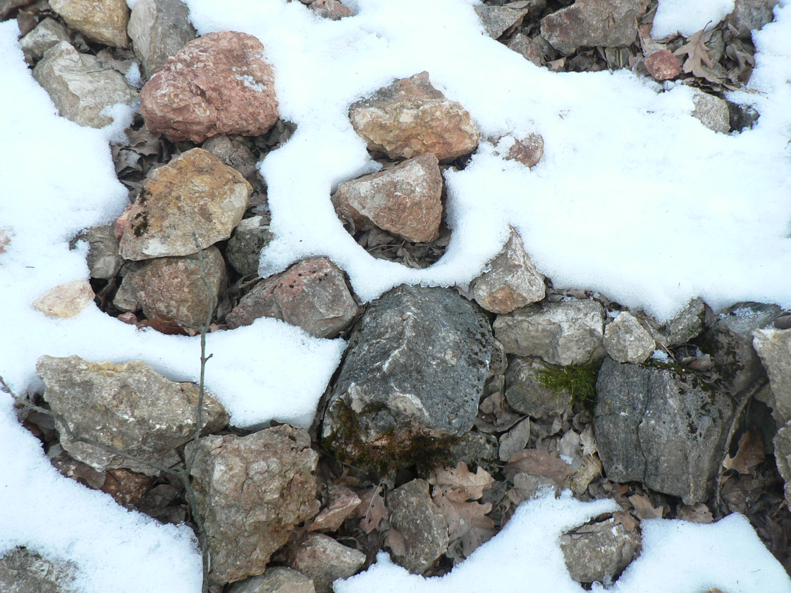 Bazaltgyanús kövek a barlang alatti bányafalnál.